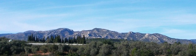 Serra del Turmell. Mountain range close to Rossell, Valencian Community